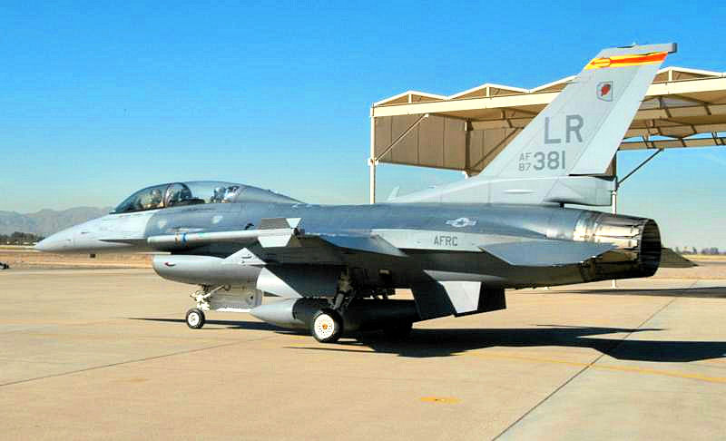 USAF F-16D block 32 #87-0381 assigned to the 944th FW taxis onto the runway at Luke AFB to commence another training mission. This F-16 was assigned to the T-birds between 1992 and 1999. [USAF photo]